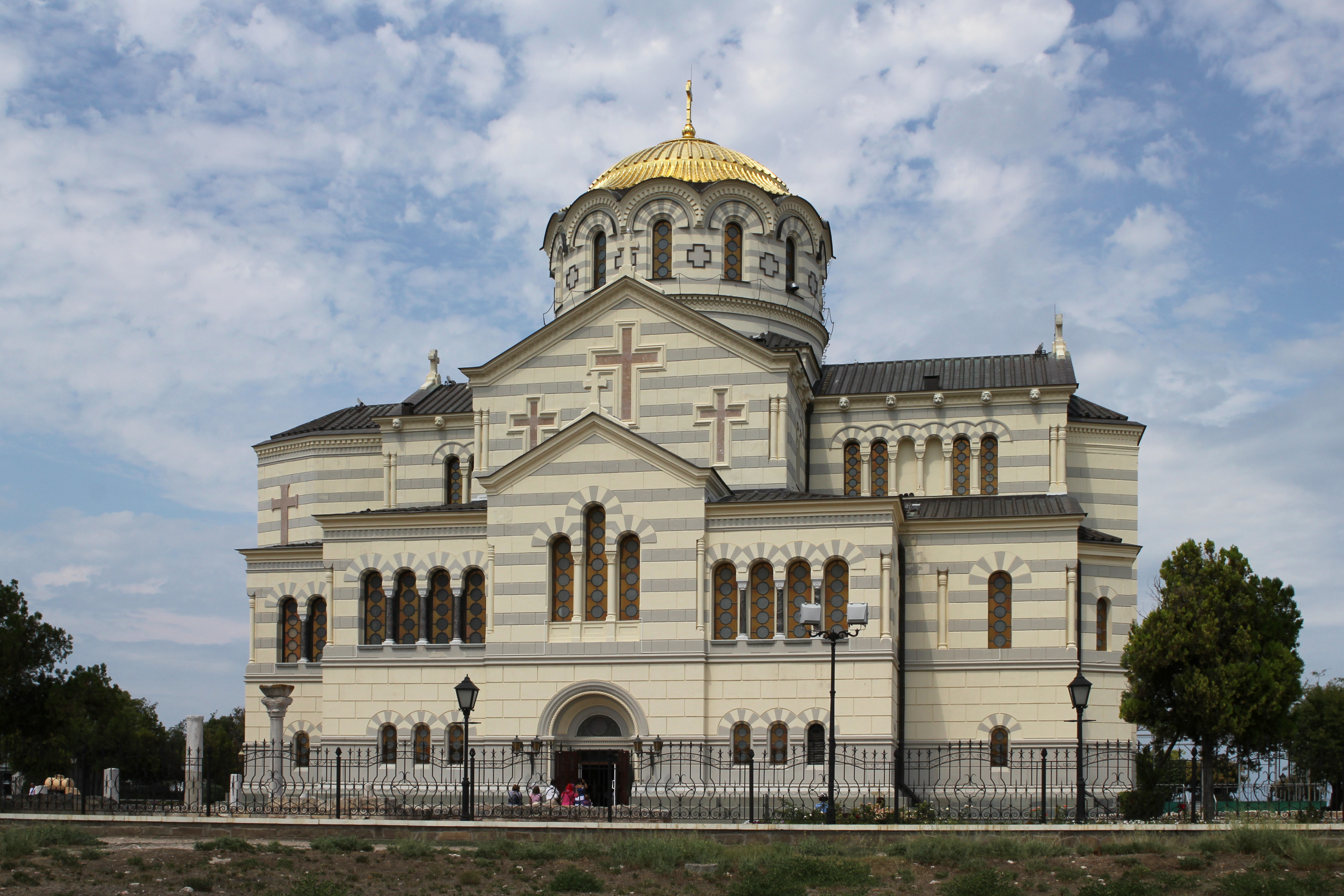 Cathedral of Saint Vladimir in Chersonesos. Designed by David Grimm in 1859, structure built in 1861-1879, finishes completed 1883-1891